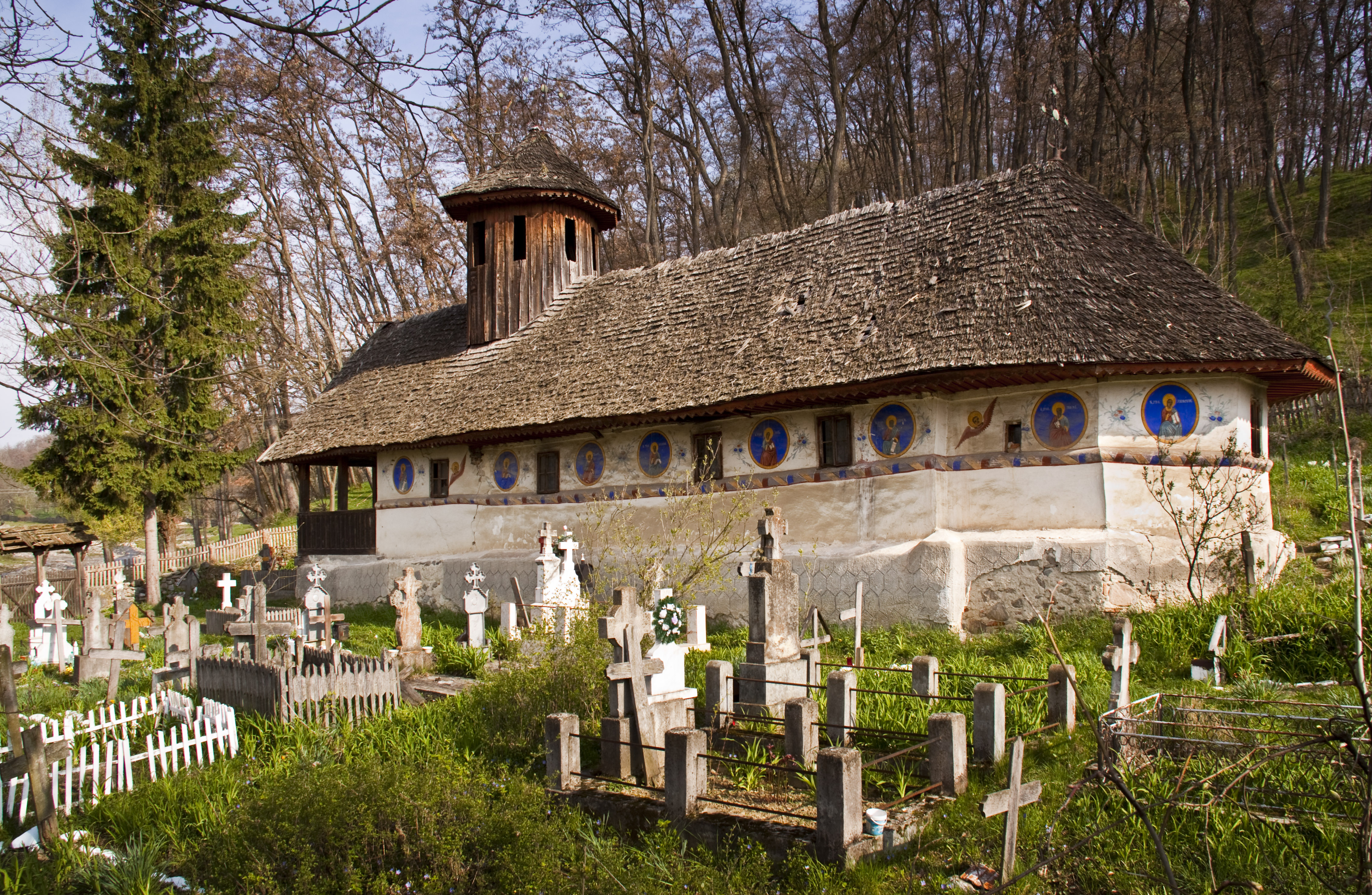 Robaia, Argeş county, Romania: the wooden church.